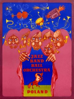 A promotional poster for the 1974 Jazz Band Ball Orchestra in Kraków, Poland.